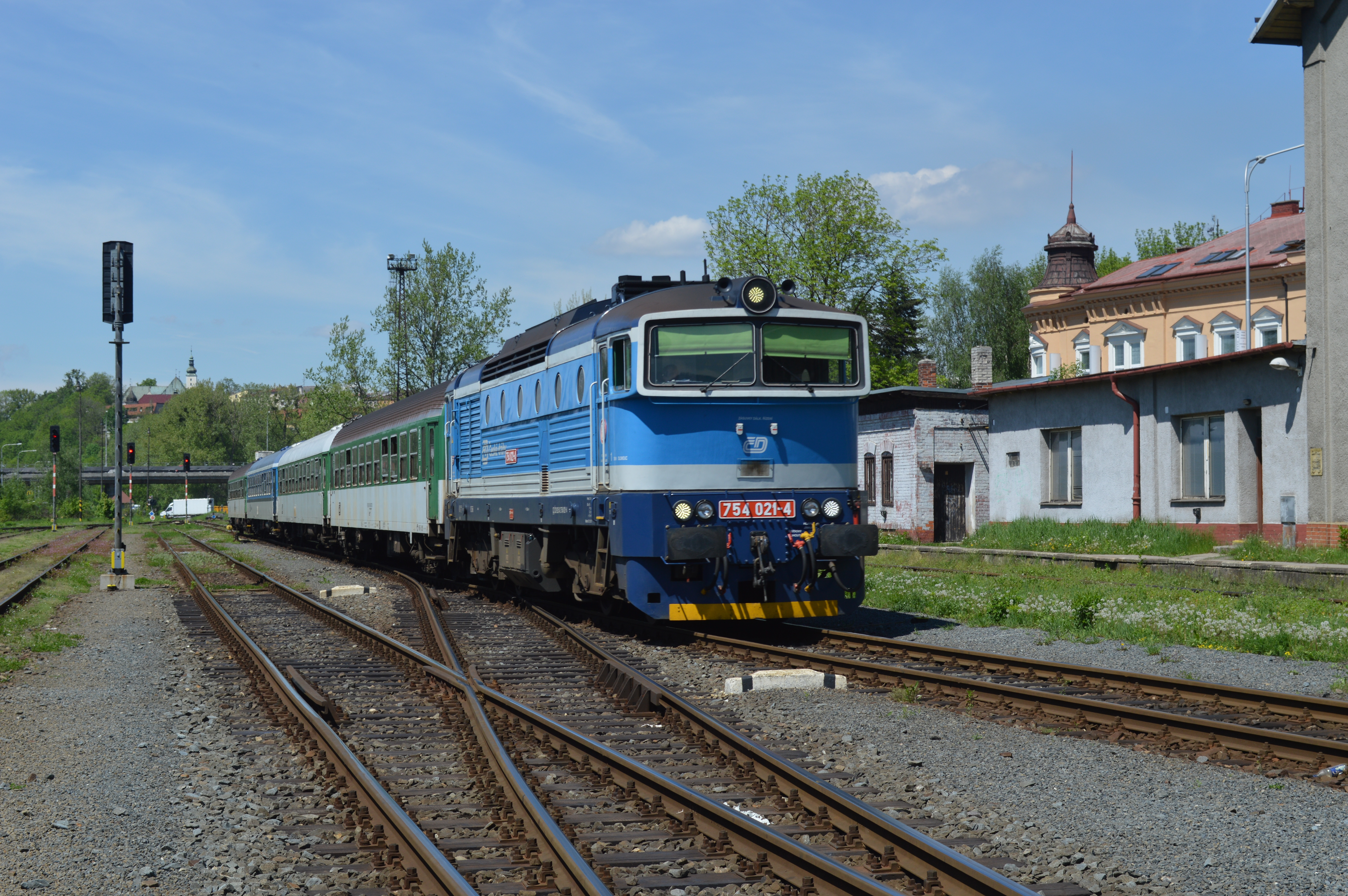 2013 Czech Republic Trip Day Four Seen later in the day on 14 May 2013, 754.021 pulls into Frýdek-Místek whilst working train Os3134, 13:47 Ostrava hl.n. to Frenštát pod Radhoštěm. This line sees a mixture of hauled trains and class 843 DMUs. After a cloudy start to the week, weather conditions improved and train reliability was good. Some late running did occur on this line earlier in the day. However, despite often very short connection times, trains were kept waiting where permitted. The Czech rail timetable clearly indicates if your train won't wait or a maximum of 5 minutes.